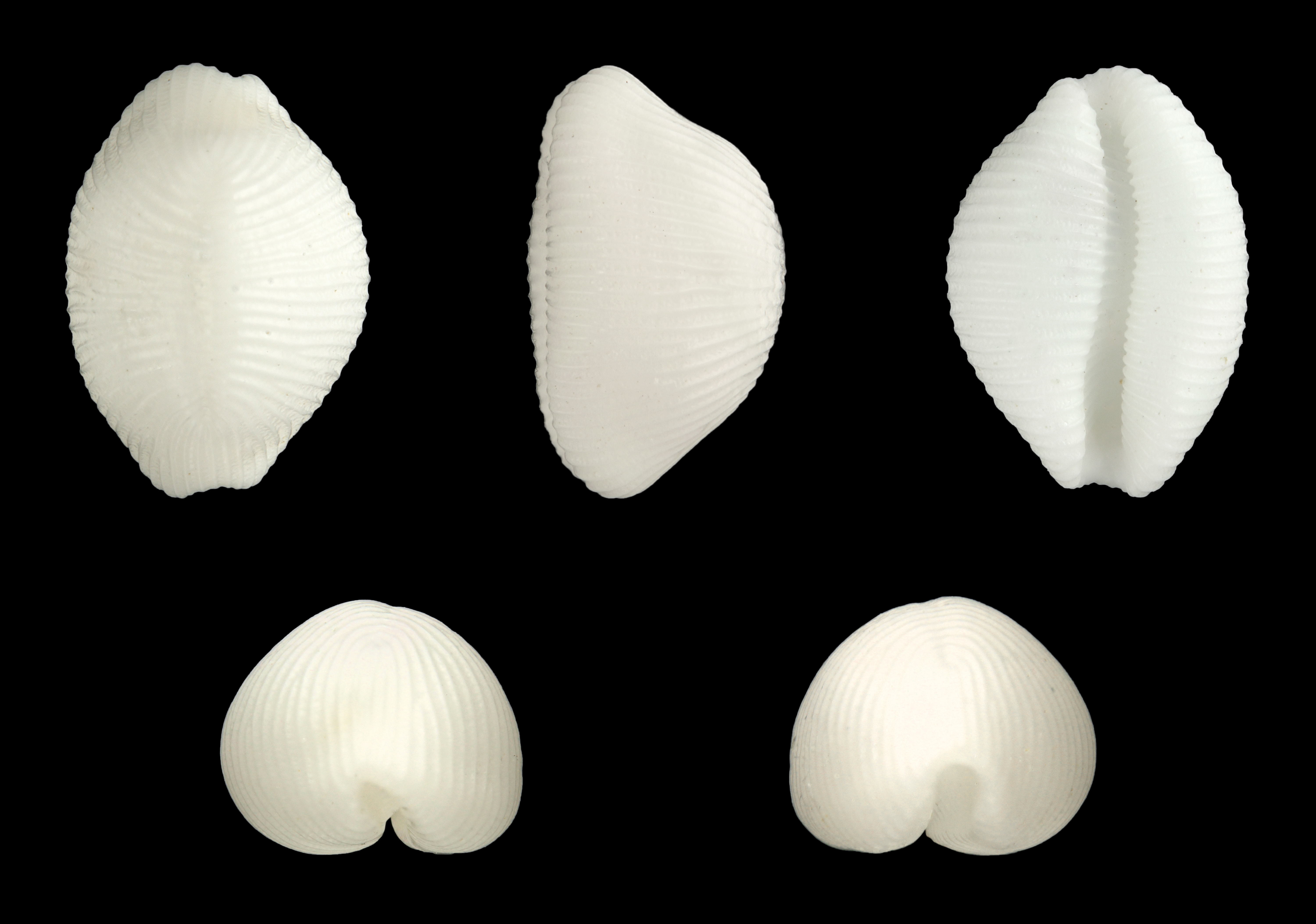 Rice Grain Cowry; Length 0.8 cm; Originating from Medilla Beach, Tangalla, Sri Lanka; Shell of own collection, therefore not geocoded. Dorsal, lateral (right side), ventral, back, and front view.